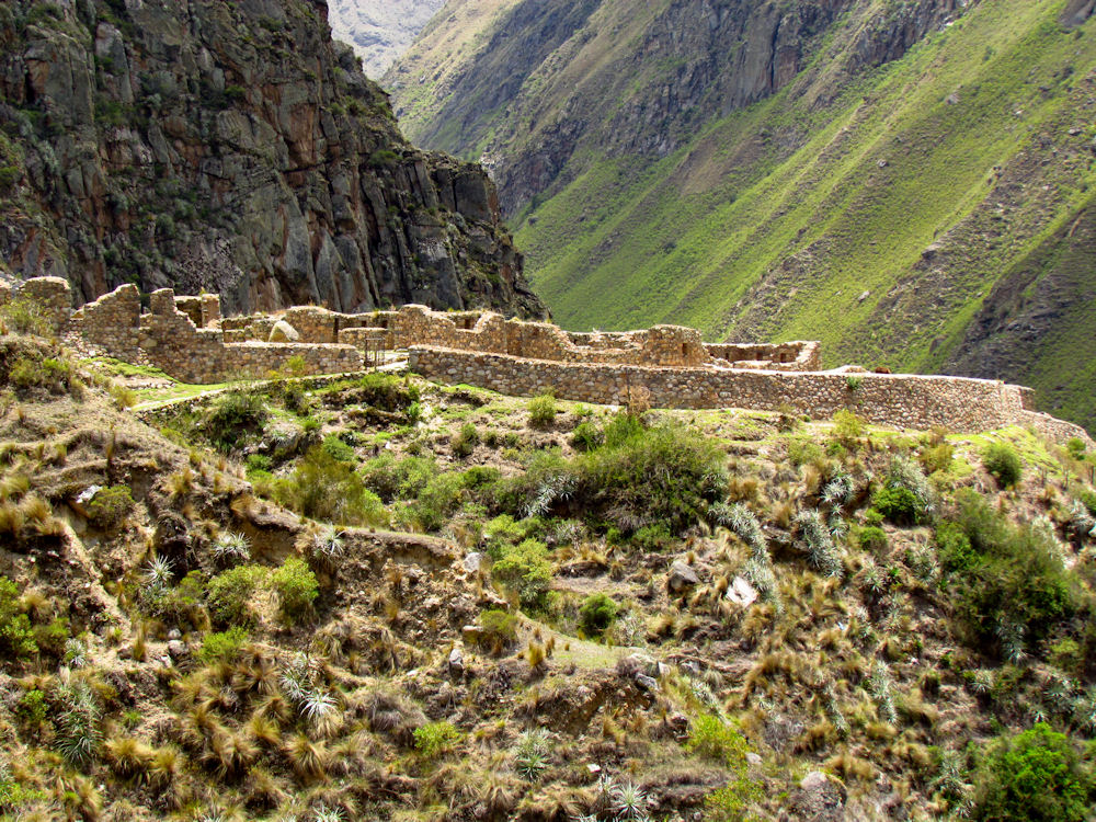 Willkaraqay ruins on Inca Trail that leads to Machu Picchu